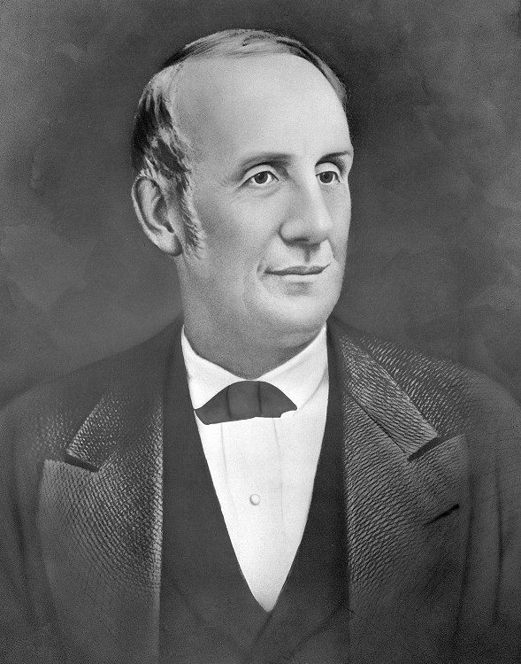 Portrait of former Mayor of Pittsburgh Jared M. Brush